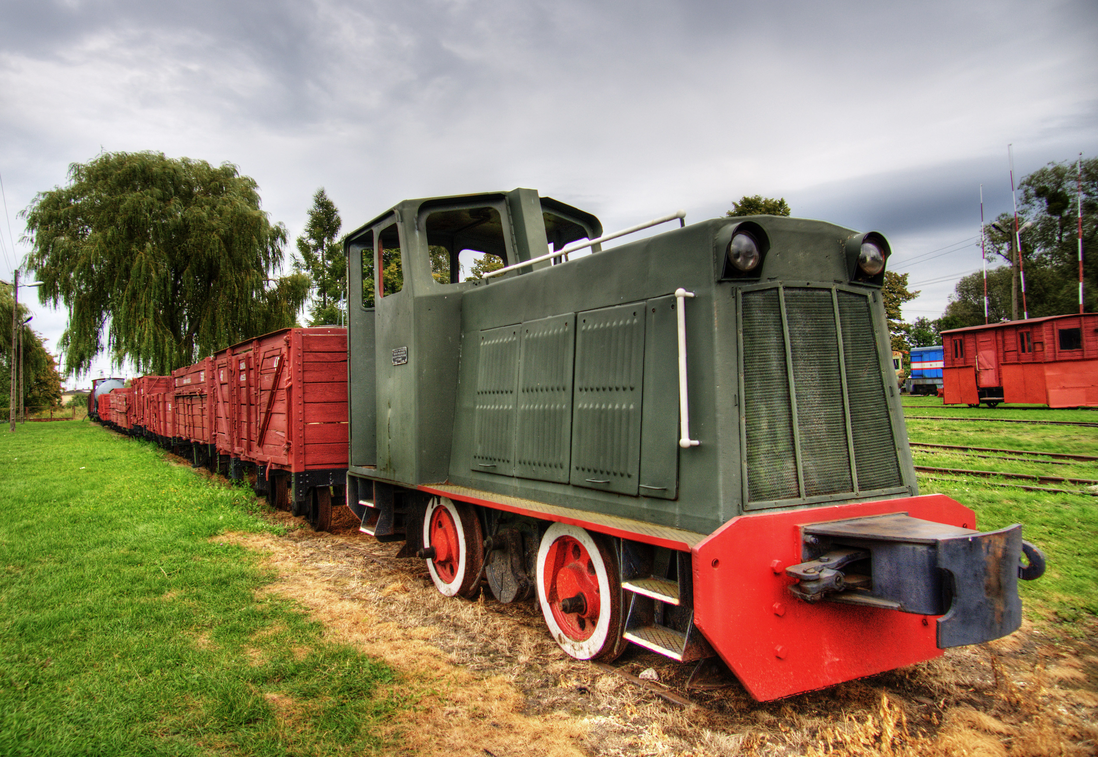 Rogów railway museum, Poland - Wls75 locomotive